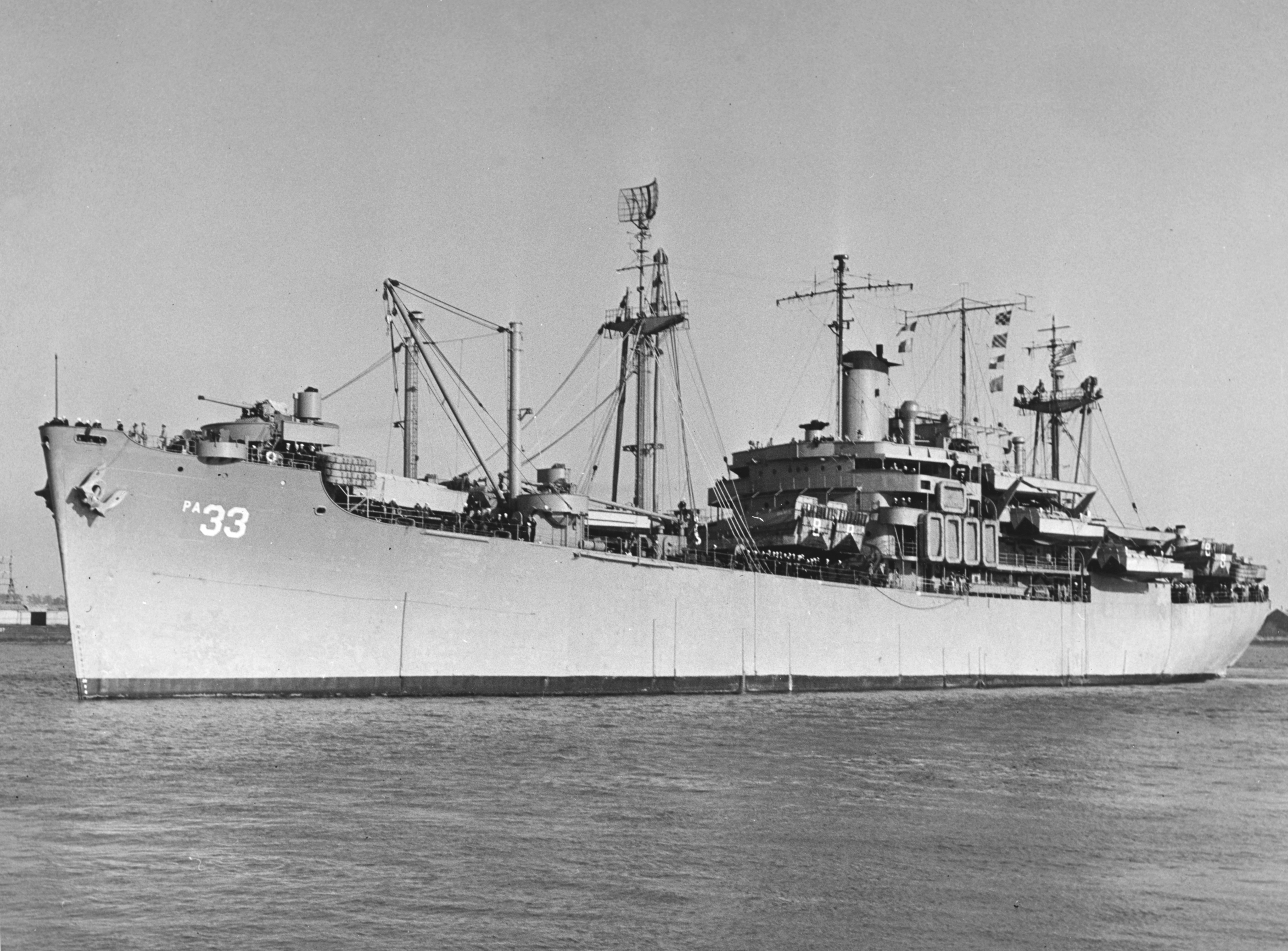 The U.S. Navy attack transport USS Bayfield (APA-33) at Charleston, South Carolina (USA), on 4 January 1950. She was proceeding to Pier D-5 at the Charleston Naval Shipyard to embark troops of the Third Division, from Fort Benning, Georgia (USA), to participate in "Operation Protrex".